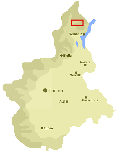 Position of the valley Valle Vigezzo